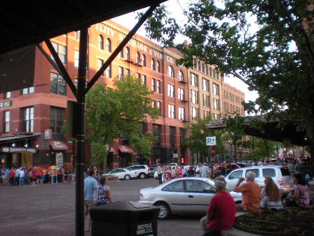 Old Market Omaha, Nebraska, summer 2010